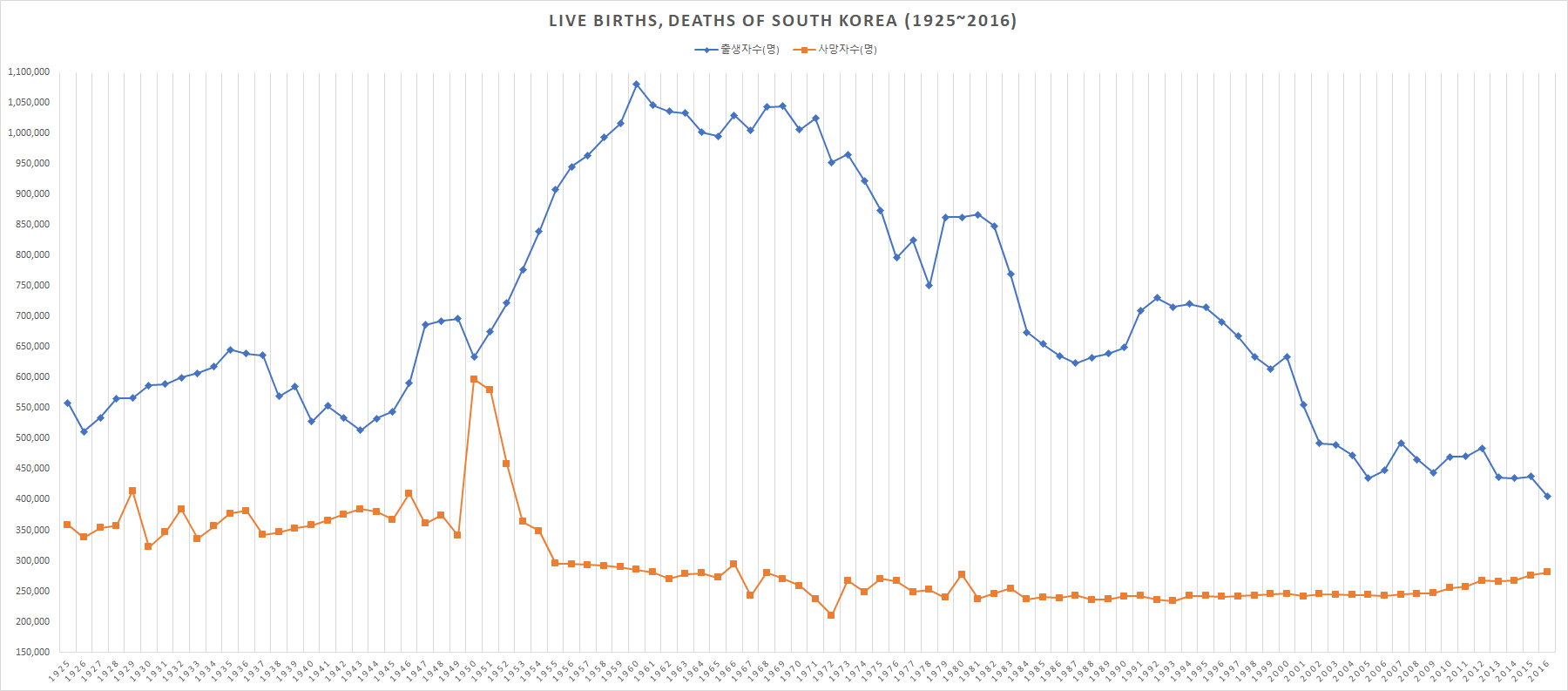 Live births, deaths of South Korea (1925~2016)